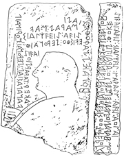 Stele from Kaminia (Lemnos) ca. 510 BC.